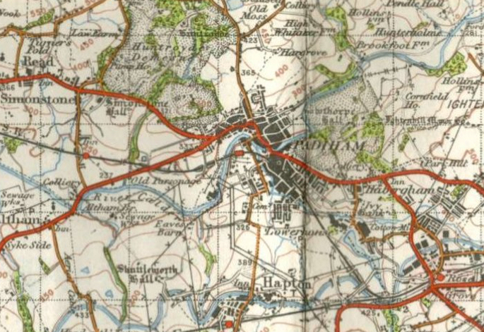 Ordnance Survey map of Padiham, Lancashire, England ca.1948 showing locations of railway station and local connections.